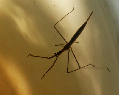 Ranatra linearis